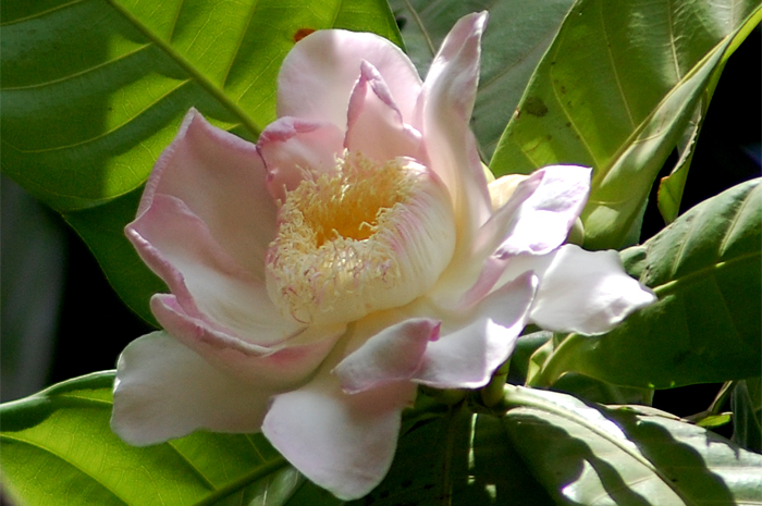 Gustavia augusta